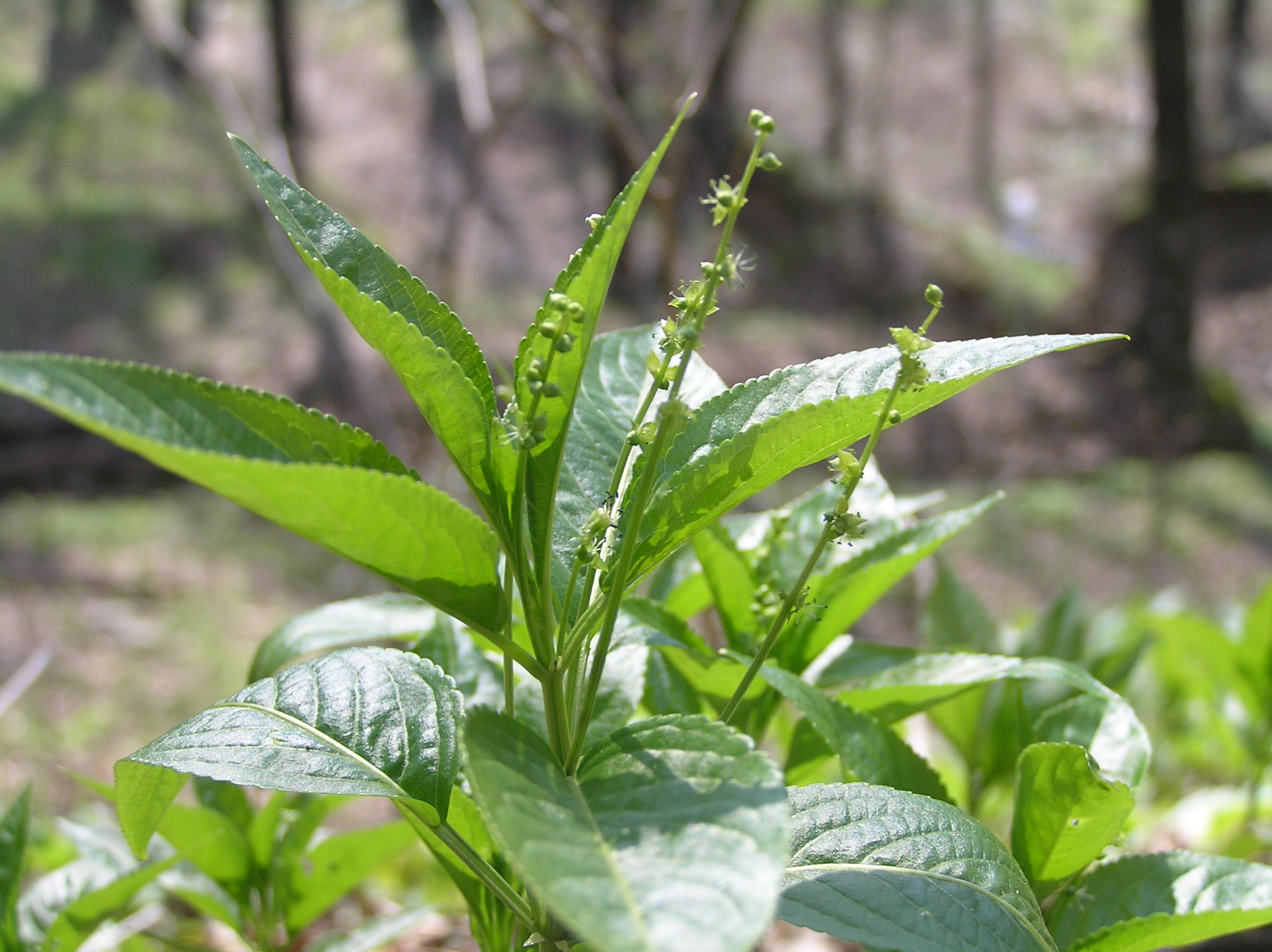 Mercurialis perennis, Choceň, Czech Republic